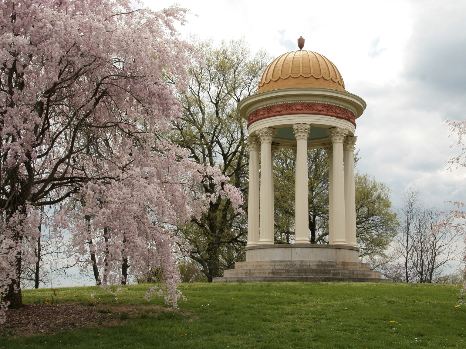 "Temple of Love" pergola at Mount Storm Park. Taken by Greg Hume (talk) 18:47, 20 April 2008 (UTC) on April 19, 2008